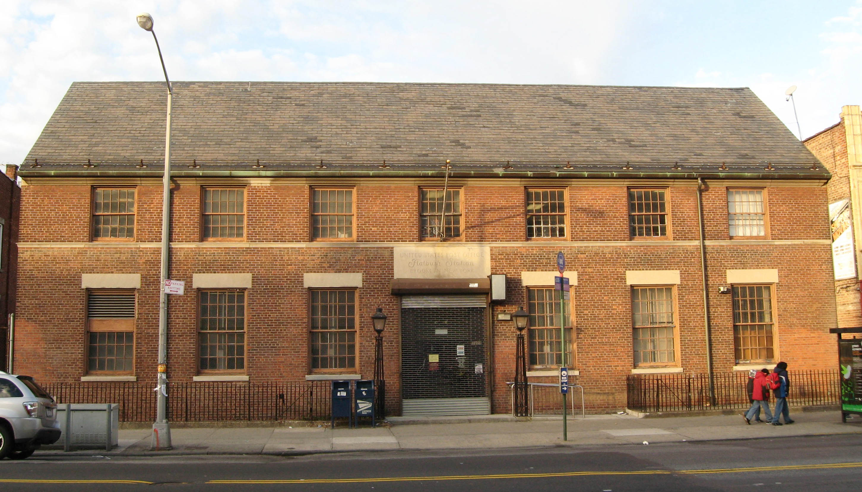 Looking north across Church Avenue at Flatbush Station, US Post Office on a cloudy afternoon. Designed by Lorimer Rich. ZIP 11226.